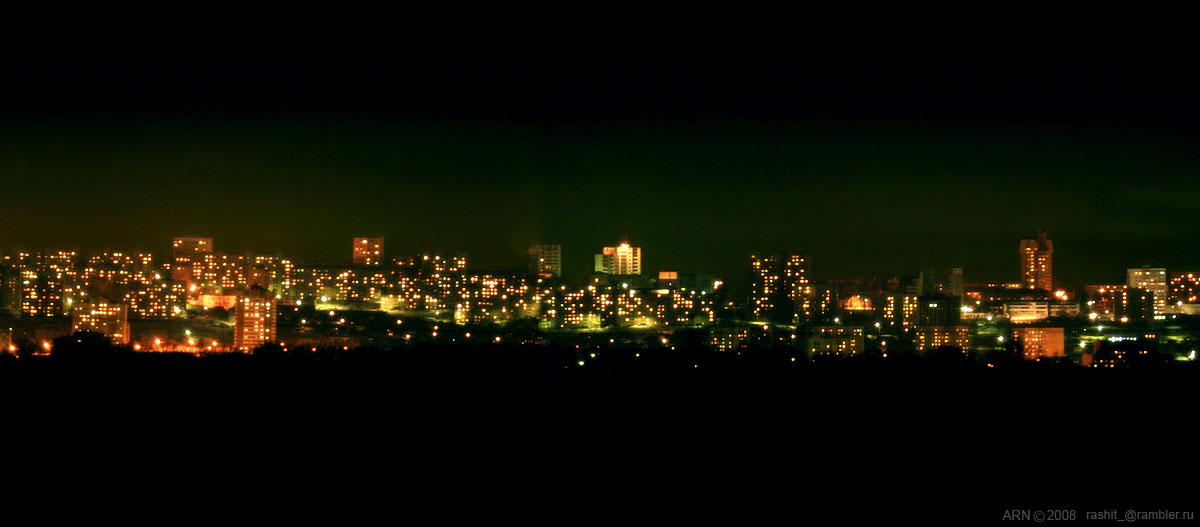 View of night Ufa, Bashkortostan.